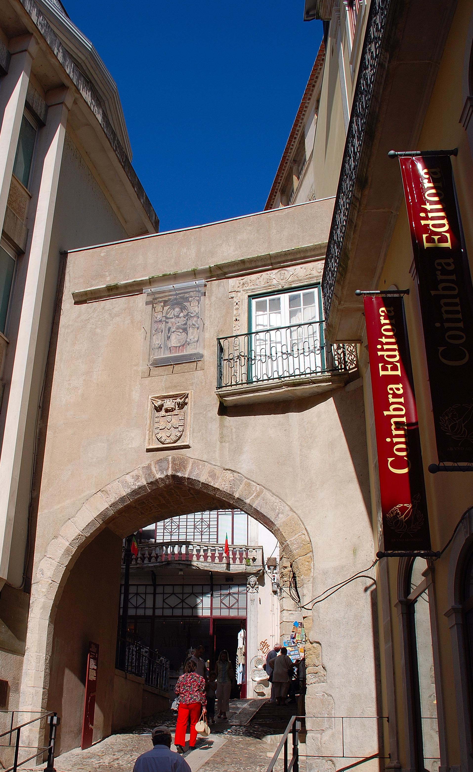 Barbican Gate at Almedina parish in Coimbra, Portugal.